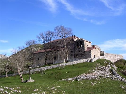 Building of the sanctuary of our virgin of gold taken from below.